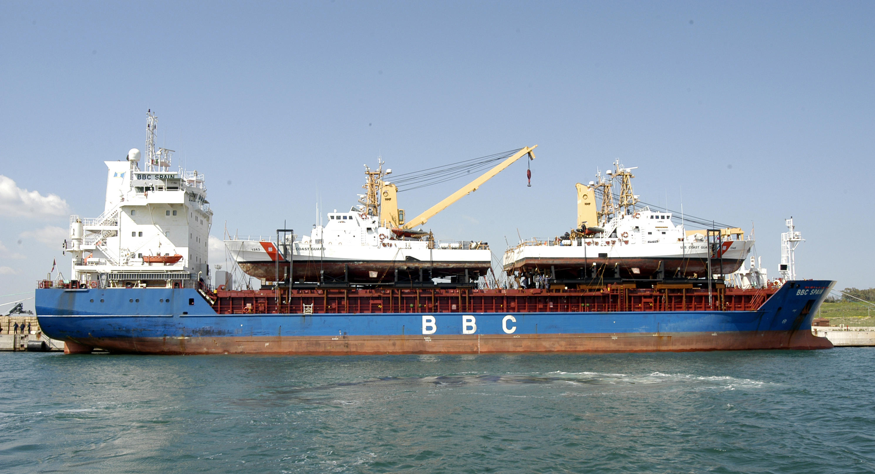 Augusta Bay, Sicily (Mar. 18, 2003) — Four U.S. Coast Guard (USCG) patrol boats sit aboard commercial cargo vessel BBC Spain ready to be offloaded. The patrol boats were shipped from various USCG bases in the U.S. for duty in the Mediterranean. The boats and crews have been forward deployed to protect ports frequented by the United States and its allies, who are in the region-conducting missions in support of Operation Enduring Freedom. IMO Number: 9210359 MMSI Number: 304218000 Callsign: V2AO7 Length: 102 m Beam: 18 m